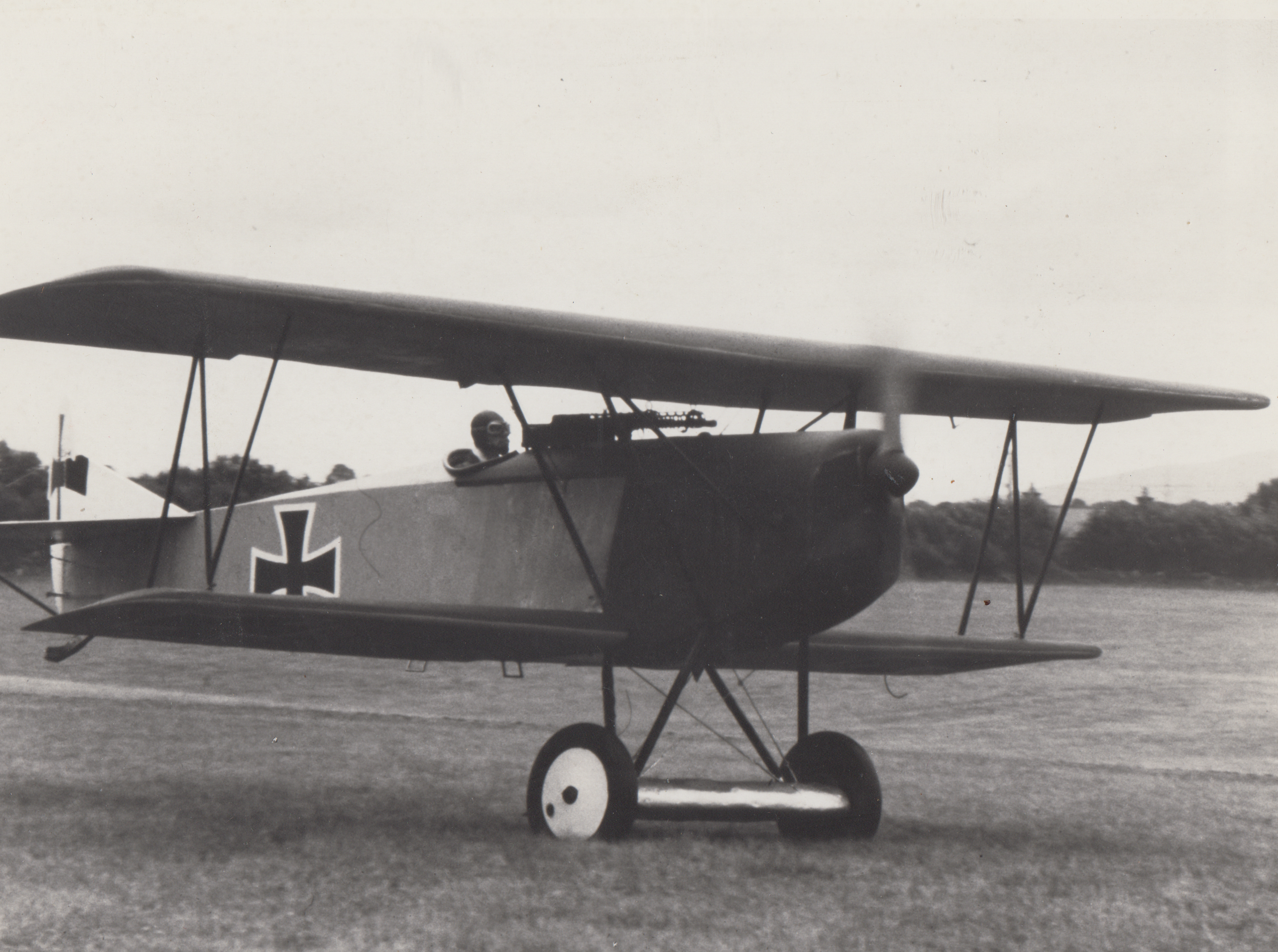 During summer 1970 Dick Bach participated in Roger Corman's production, Richthofen & Brown in Ireland